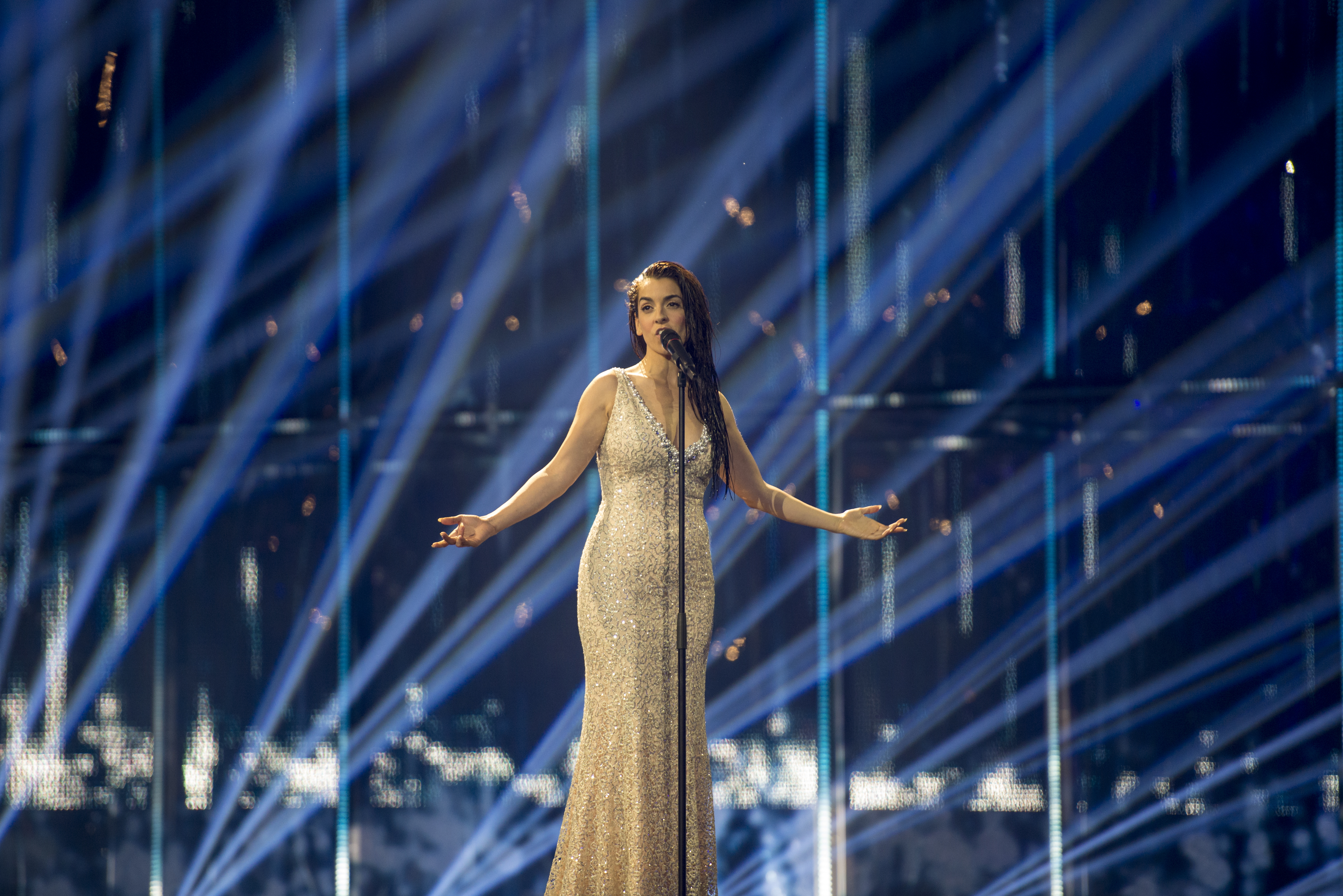 Ruth Lorenzo representing Spain with the song "Dancing in the Rain" during the first dress rehearsal of the final of the Eurovision Song Contest 2014 Copenhagen. (Help translate this text)